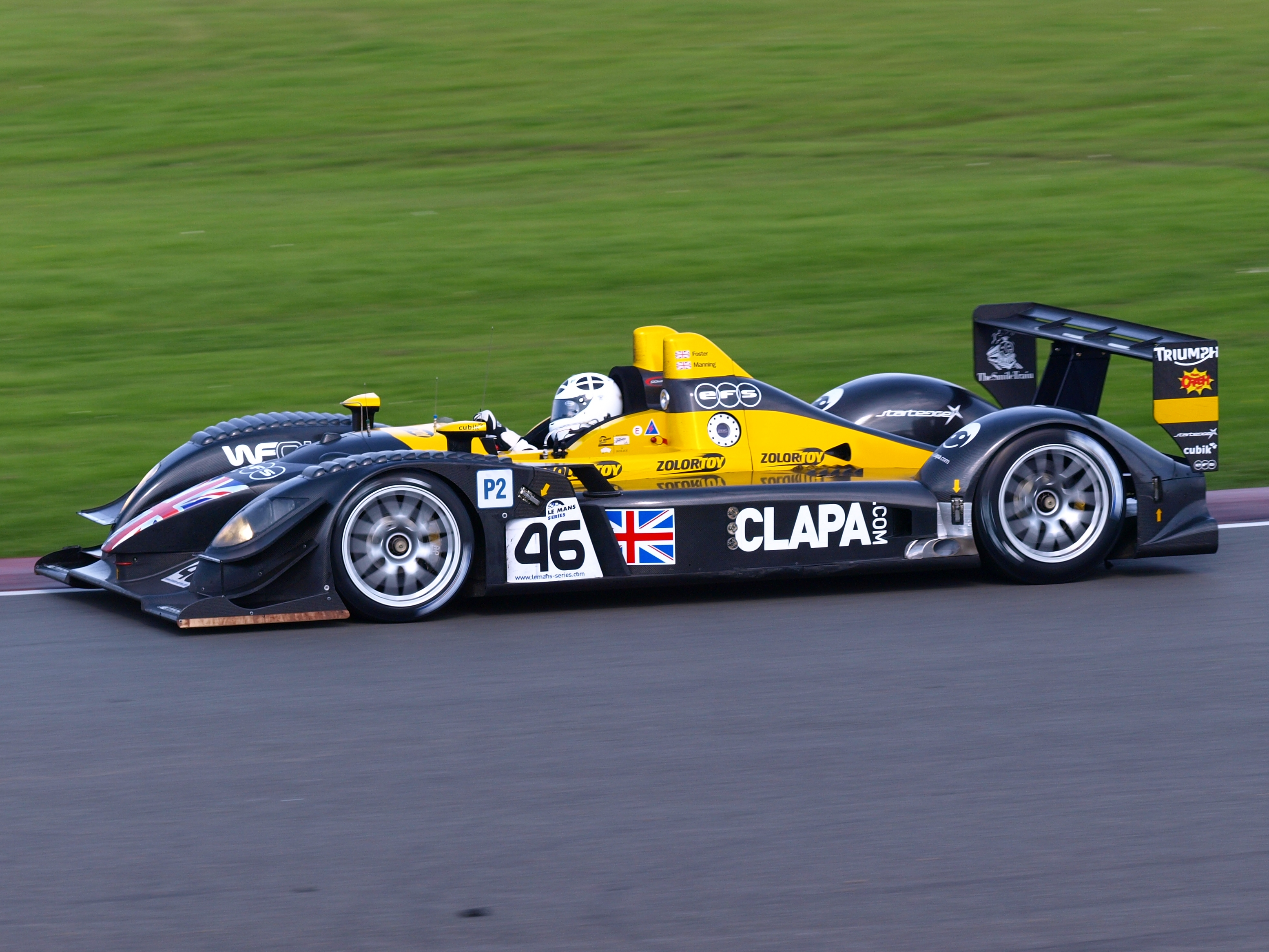 Embassy Racing's Embassy WF01-Zytek at the 2008 1000km of Silverstone.